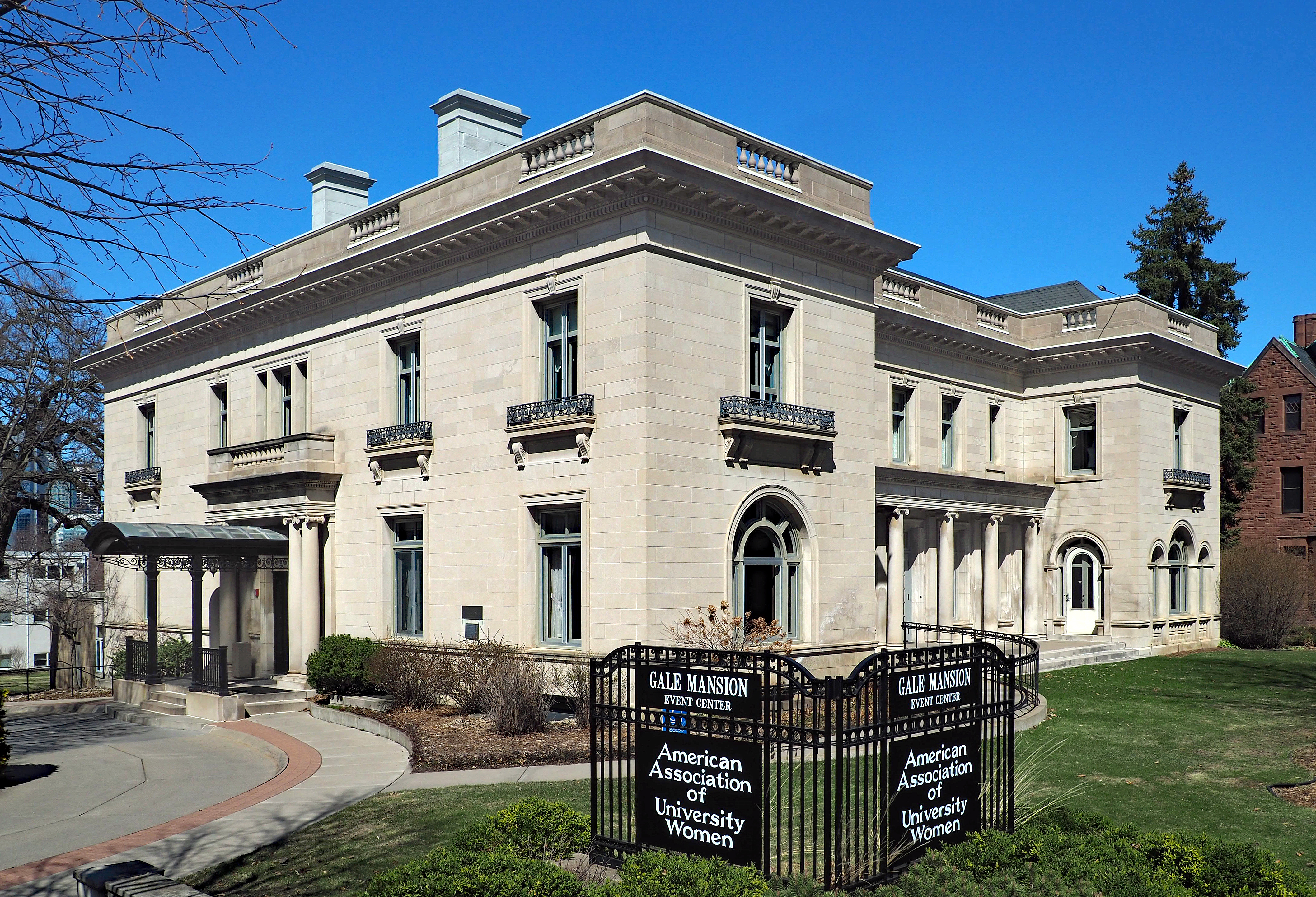 Gale Mansion, 2115 Stevens Ave S, Minneapolis, Minnesota, USA. Viewed from the southwest. A contributing property to the Washburn-Fair Oaks Mansion District.